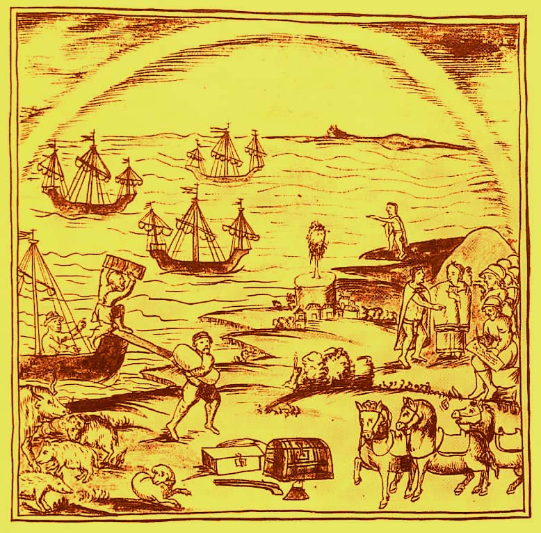 Illustration from the Florentine Codex depicting Hernán Cortés and his men reaching the coast of Veracruz on April 21, 1519.